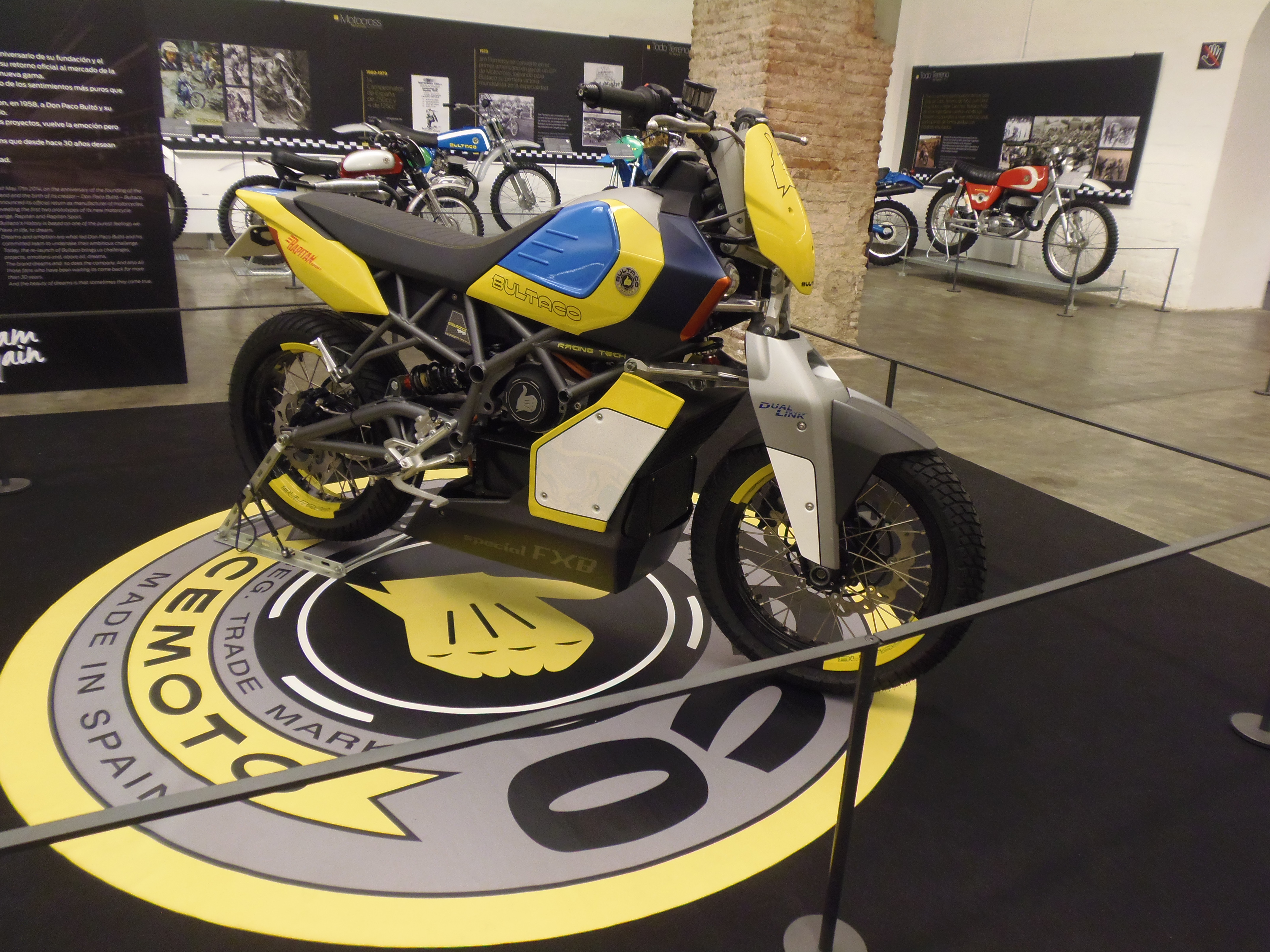 Bultaco Rapitan Sport, 2014. It has a futuristic, 100% electric bike system that develops a great acceleration and maximizes range by recovering and accumulating more braking energy than any other electric bike. It will be distributed in 2015.